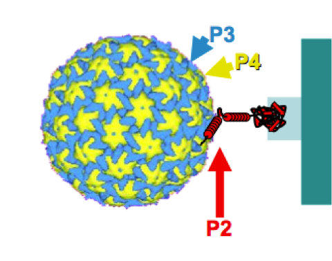 CaMV transmissible complexe.